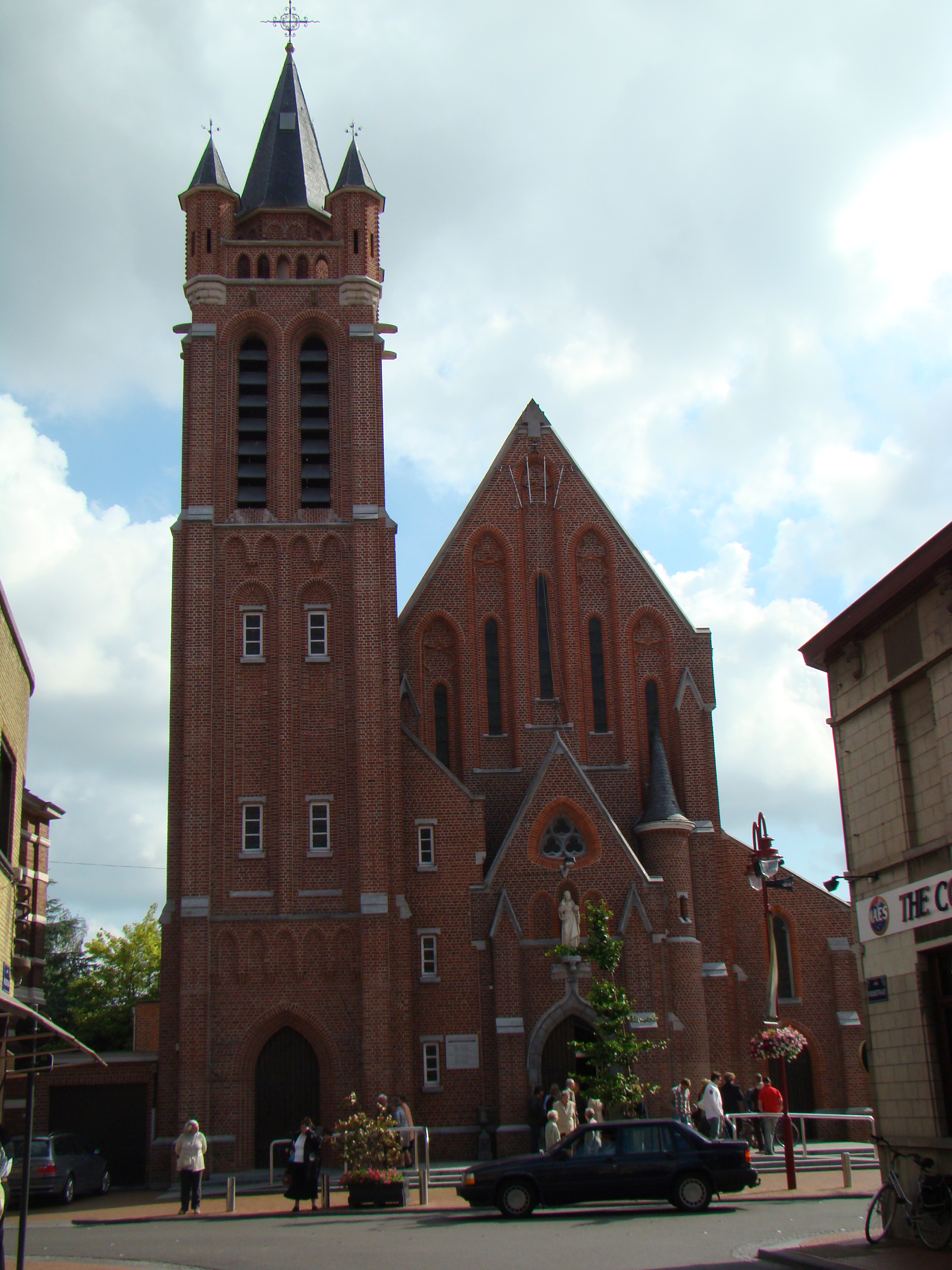 Heilig-Hart church Izegem (West Flanders, Belgium)